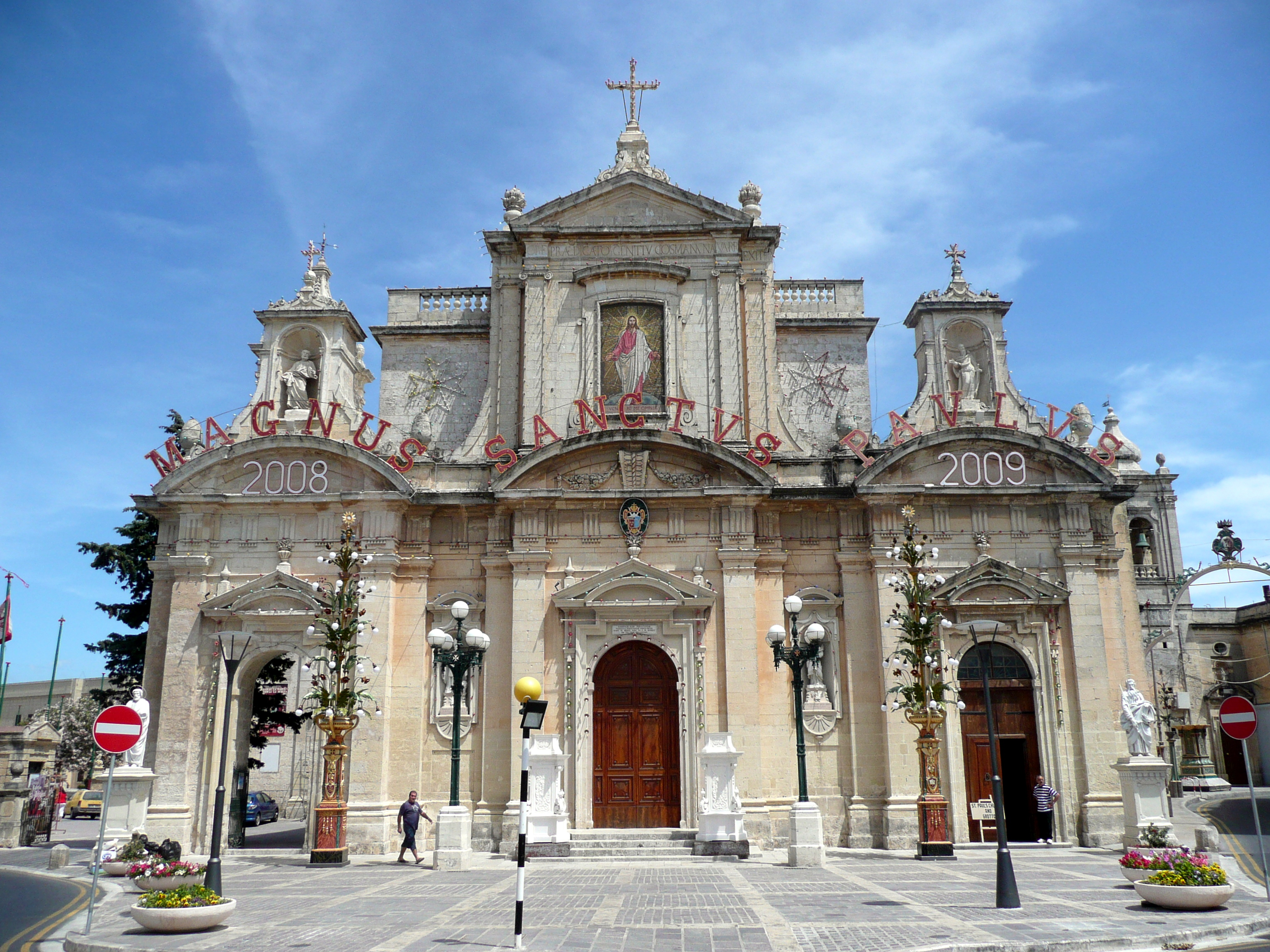 St. Paul's Church, Rabat, Malta